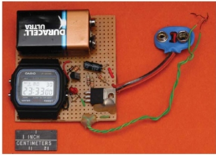 al Qaida watch timer Original caption: “ Al Qa'ida Casio Watch Timer on Perf Board Recovered in late 2002, this timer has a more complex interface that the simple Casio Watch Timer (Sheet 05706), but will not activate on the hourly chime. It has no safe-arm delay timer, as the opto-isolated detector circuit (Sheet 03340). *Time Delay: User programmable up to 23 hours, 59 minutes in one minute increments. *Power Source: Standard 9-Volt batteries for the detector circuit and detonator. The watch operates on its internal battery. *Anti-Tamper Features: None *Watch Type: Casio F-91W, but other digital alarm watches could be utilized. *Size: The printed circuit board measures 67mm x 62mm (2.6" x 2.4") with a maximum assembly thickness of 19.5 mm (0.8"). *PC Board Substrate: Perforated, single-sided epoxy-fiber-glass experimenter board. ”